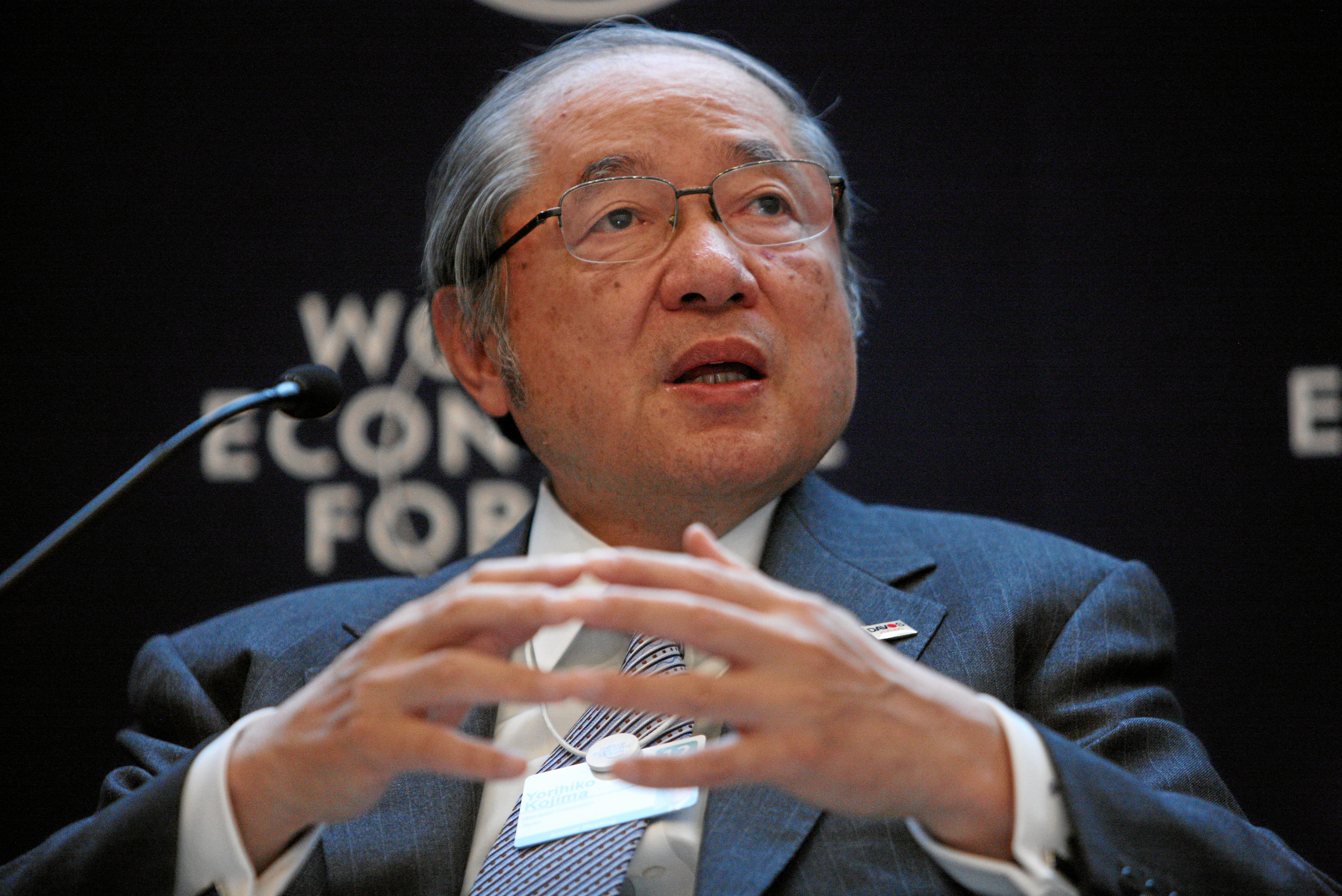 DAVOS/SWITZERLAND, 25JAN12 - Yorihiko Kojima, Chairman of the Board, Mitsubishi Corporation, Japan; Energy Utilities and Technology Community Leader 2012 captured during the session 'The Global Energy Context' at the Annual Meeting 2012 of the World Economic Forum at the congress centre in Davos, Switzerland, January 25, 2012.. . Copyright by World Economic Forum. by Remy Steinegger